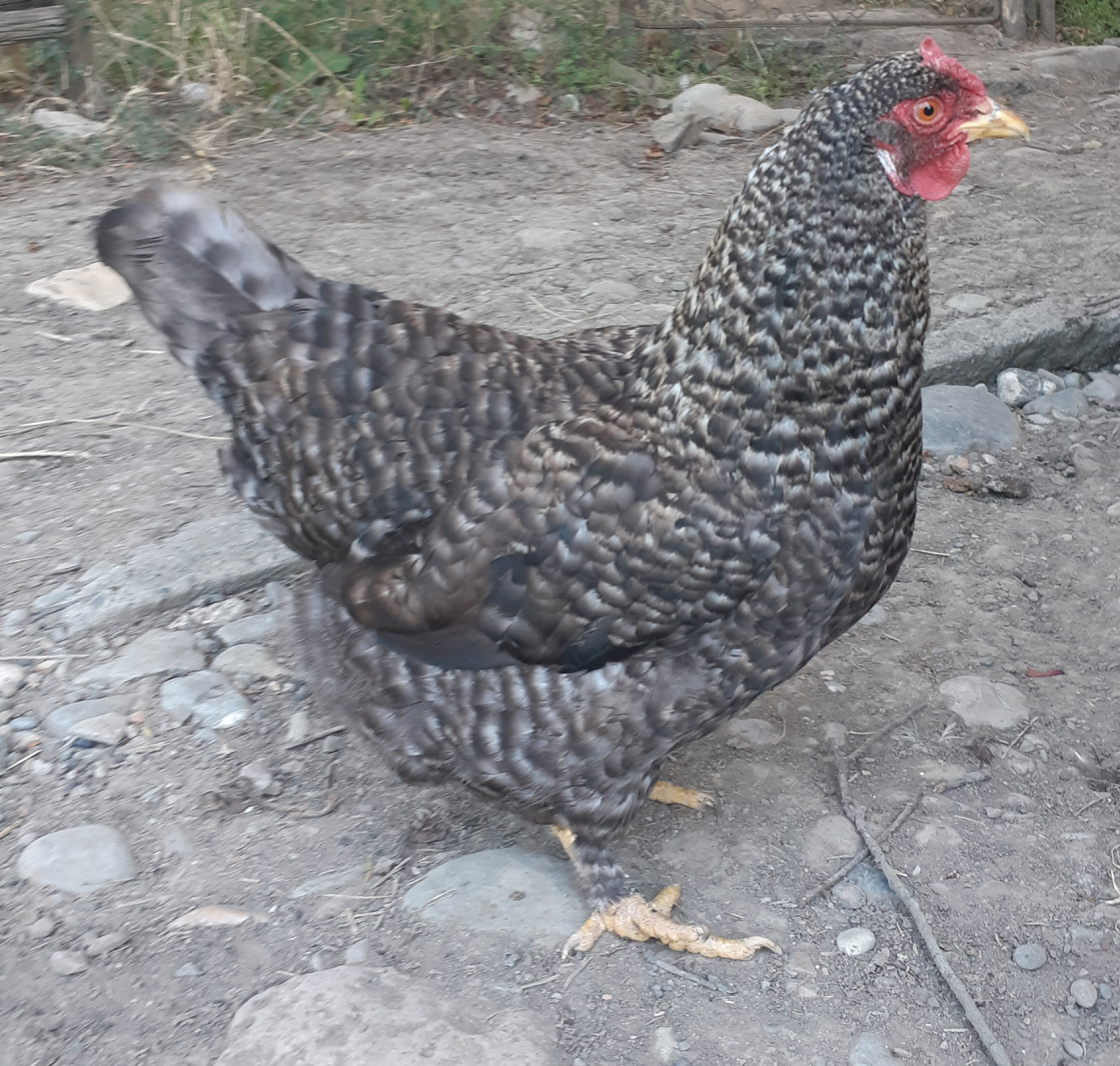 Han of Mingrelian breed